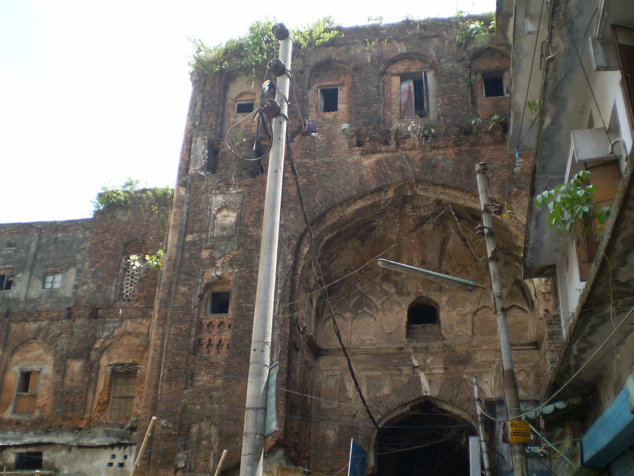 Picture of Boro Katra in Dhaka